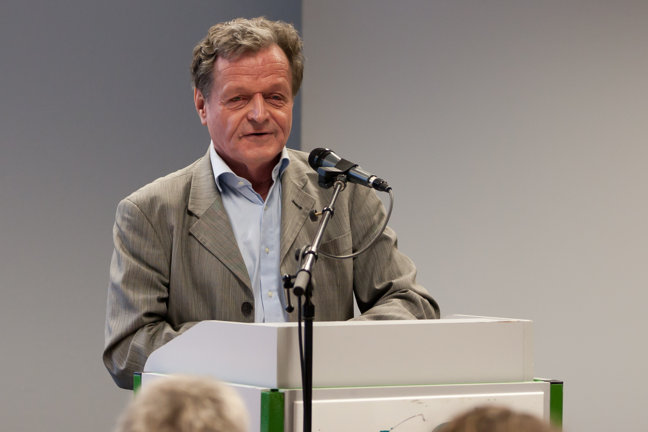 Dr. Aribert Peters at the annual meeting of the Association of Energy Consumers 2012 in Bonn